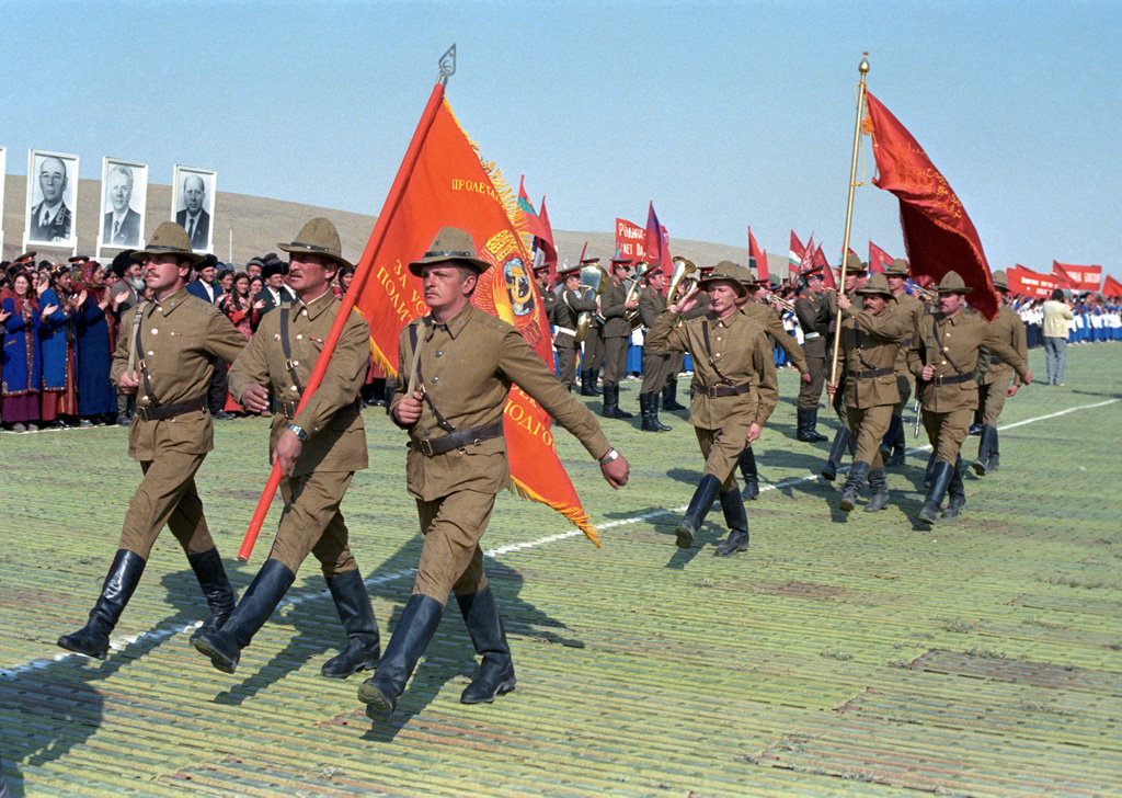 “First stage in the Soviet troop withdrawal from Afghanistan”. A ceremonial march. Soviet soldiers-internationalists returning from the Democratic Republic of Afghanistan.